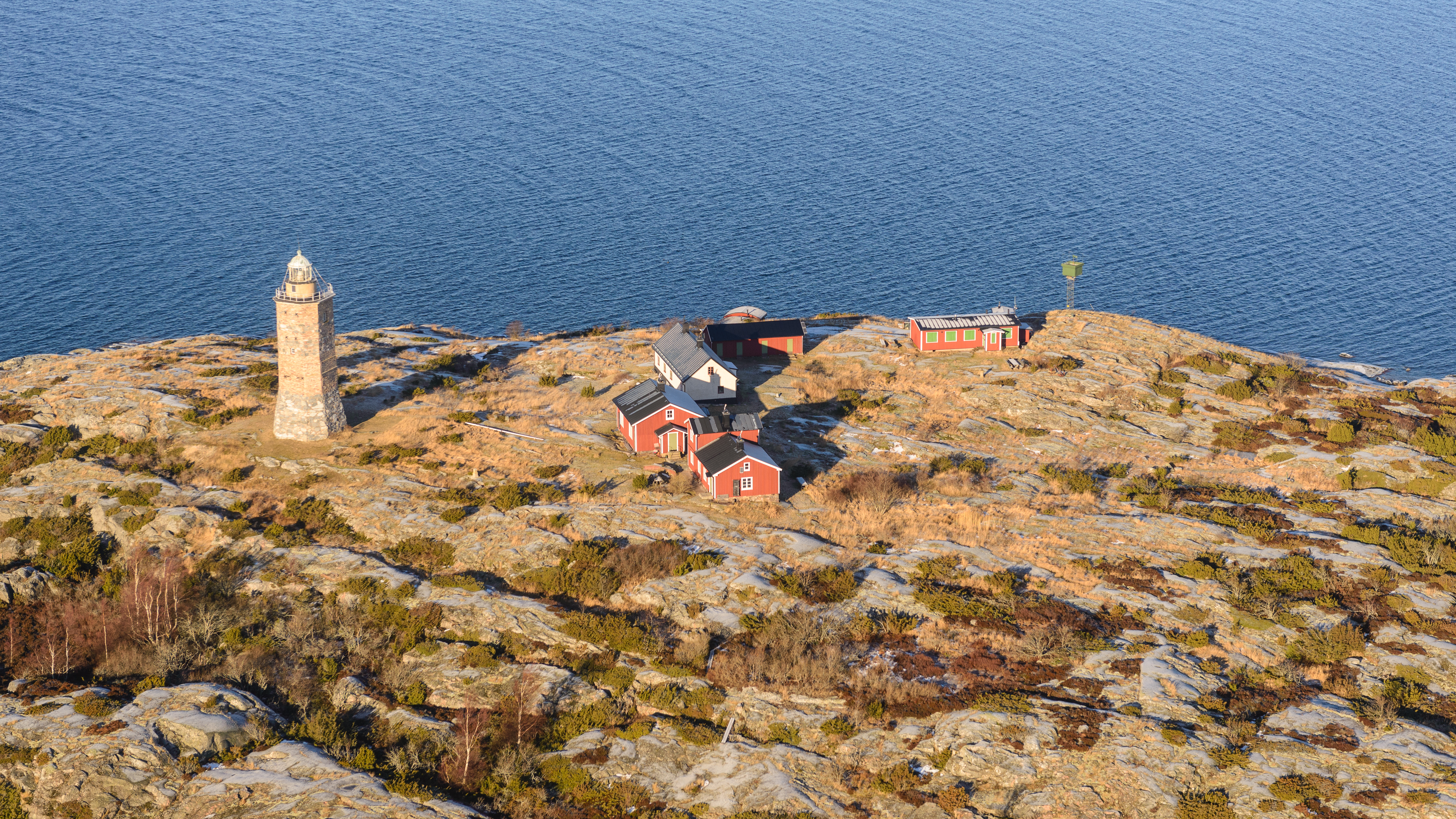 Grönskär (eng: The Green skerry) is a Swedish island and lighthouse station located in the south Stockholm archipelago, east of Sandhamn.